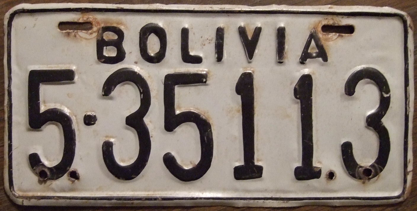 License plate of Bolivia